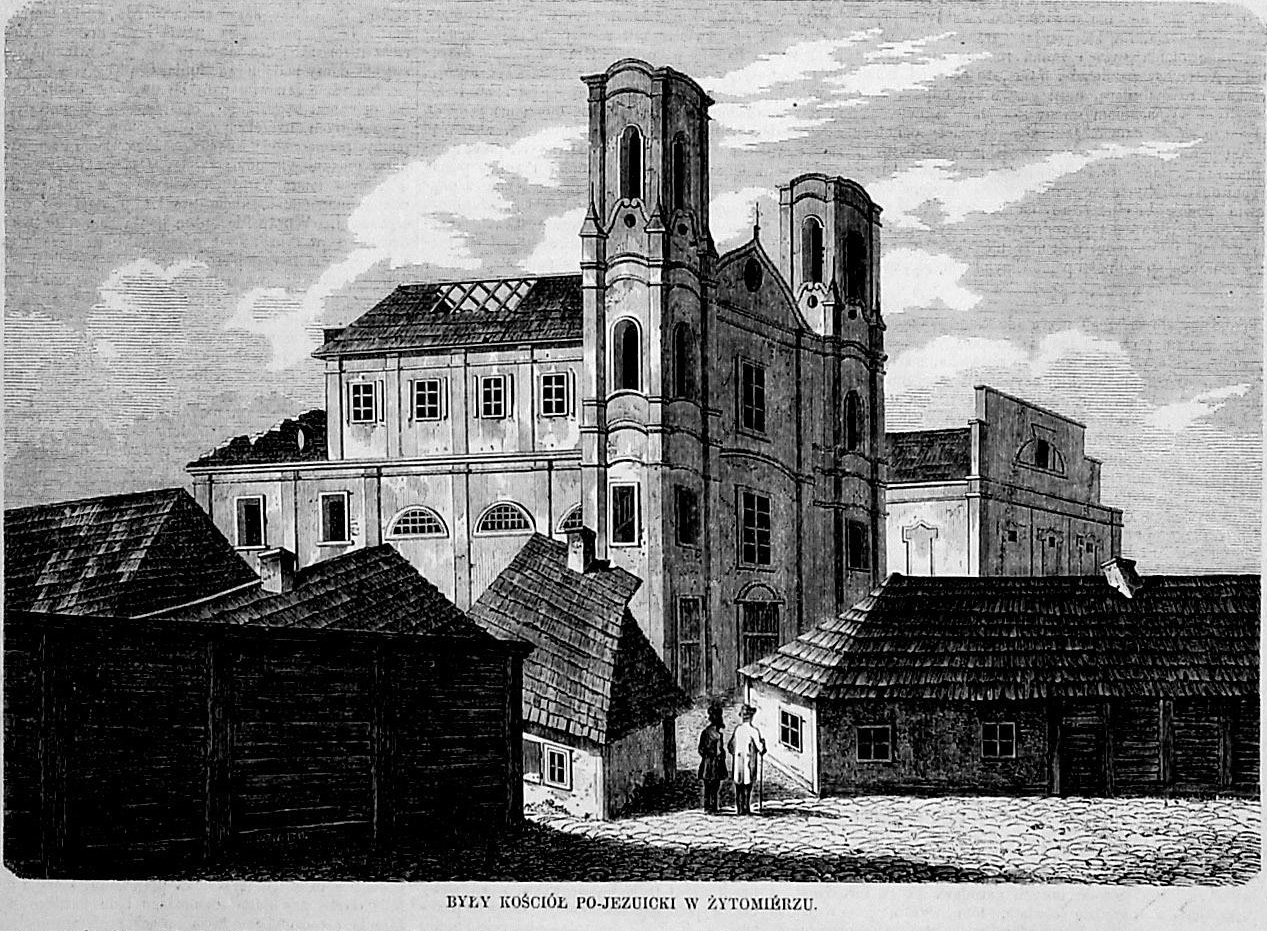 Society of Jesus monastry in Zhytomyr. Picture was made in 1838 and published in Tygodnik Ilustrowany in 1865.